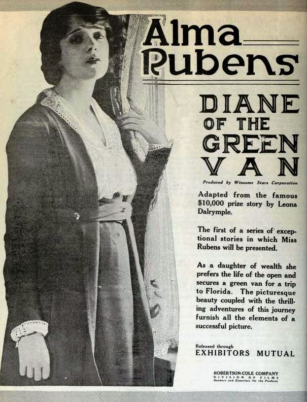 Ad for the American film Diane of the Green Van (1919) with Alma Rubens, on page 24 of the April 6, 1919 Film Daily.